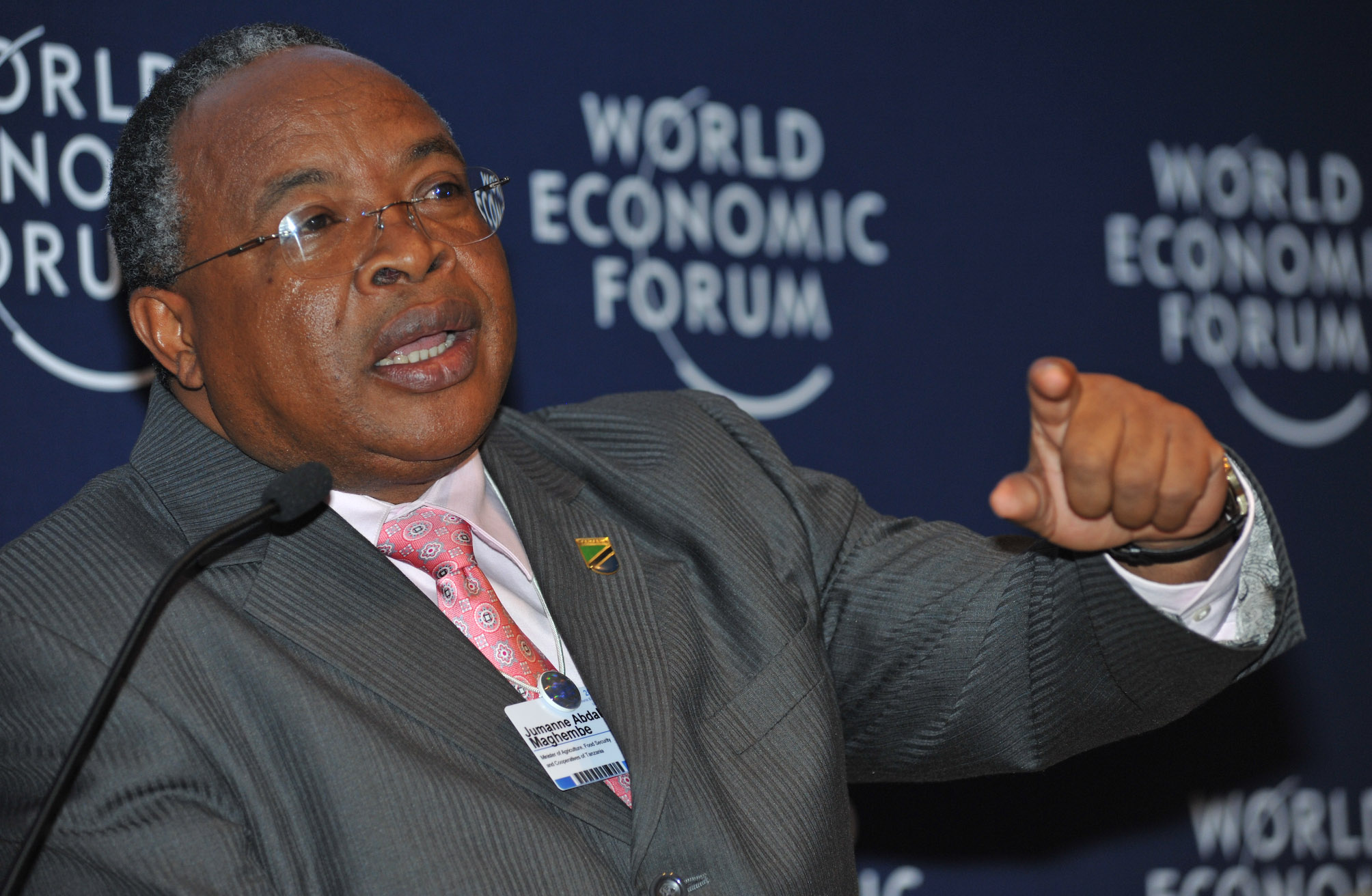 CAPE TOWN\SOUTH AFRICA, 05MAY11 - Jumanne Abdallah Maghembe, Minister of Agriculture, Food Security and Cooperatives of Tanzania, captured during the African Agriculture session at World Economic Forum on Africa 2011 held in Cape Town, South Africa, 4-6 May 2011.